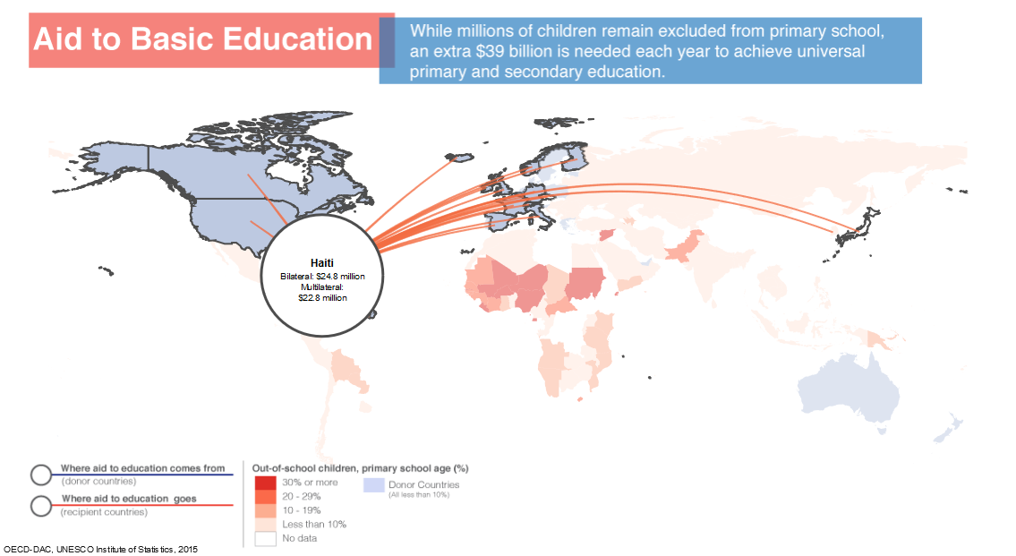 Aid to Basic Education. While millions of children remain excluded from primary school, an extra $39 billion is needed each year to achieve universal primary and secondary education.